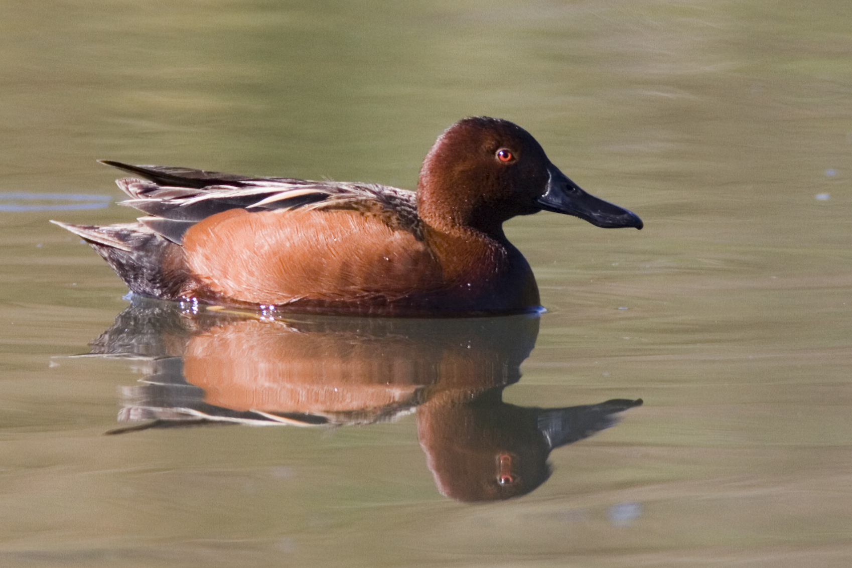 Cinnamon Teal Anas cyanoptera, Los Osos (Cuesta by the Sea Inlet), Morro Bay, CA, March 29, 2007.